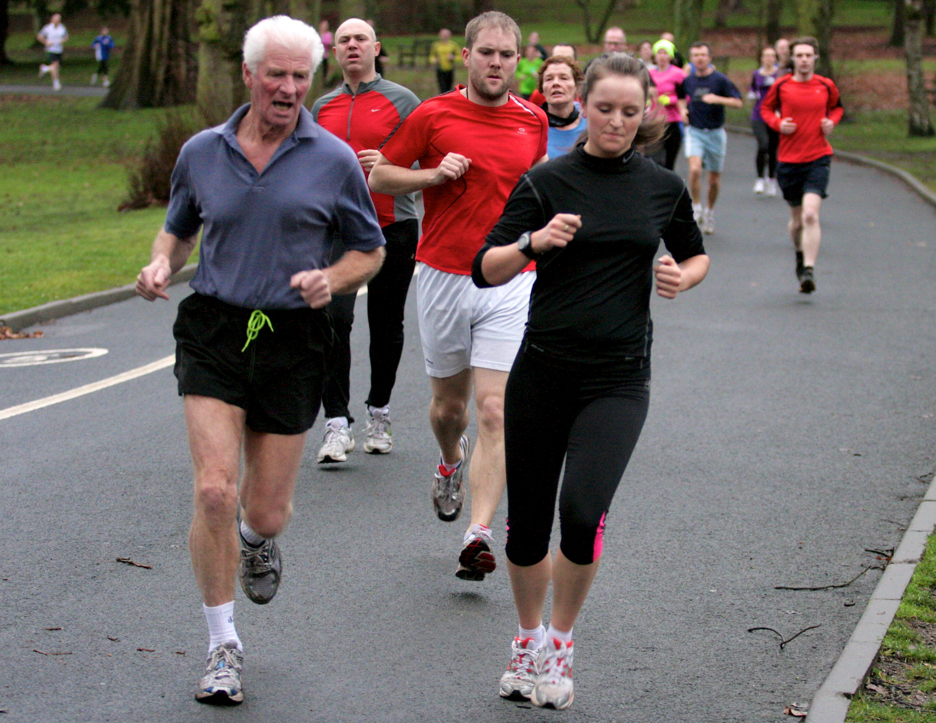 Cannon Hill parkrun event 71, Saturday 31st December 2011